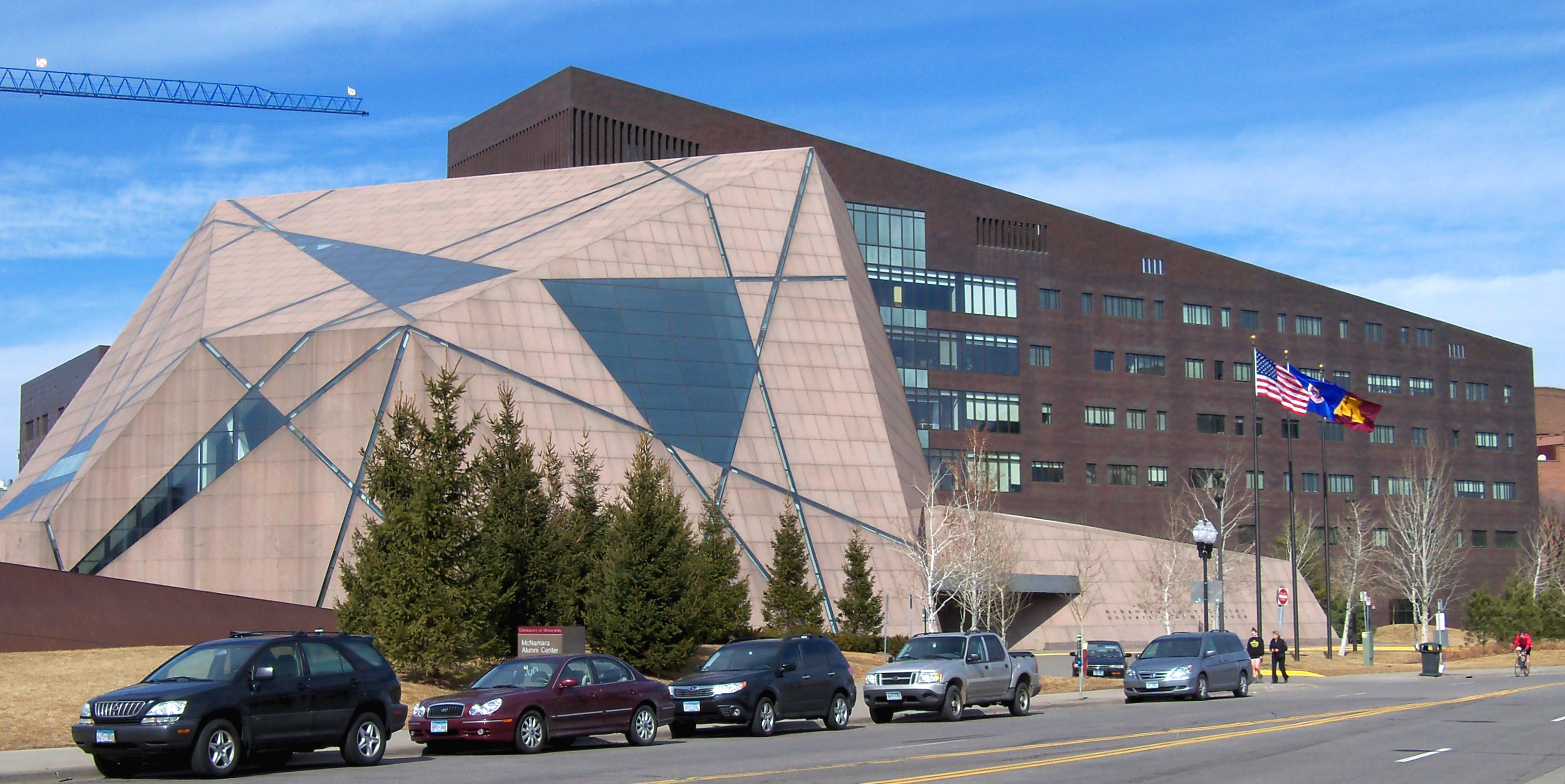 McNamara Alumni Center on the East Bank of the Minneapolis campus of the University of Minnesota.